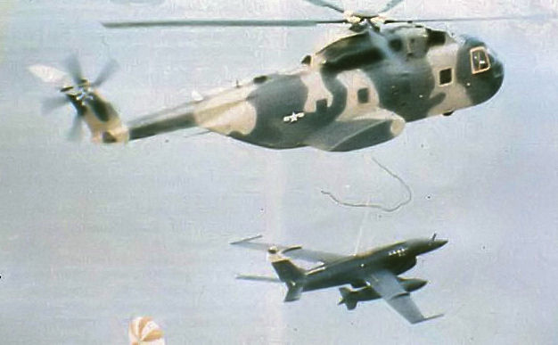 HH-3E Jolly Green Giant inflight capture of an 556th Reconnaissance Squadron AQM-34 drone.